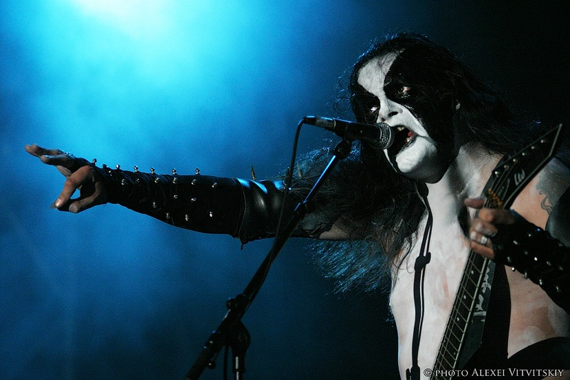 Abbath during the Immortal concert at the 2007 Wacken Open Air.